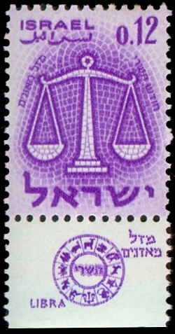 Zodiac I stamp - 0.12 Israeli lira - Sign of Libra, Month of Tishri